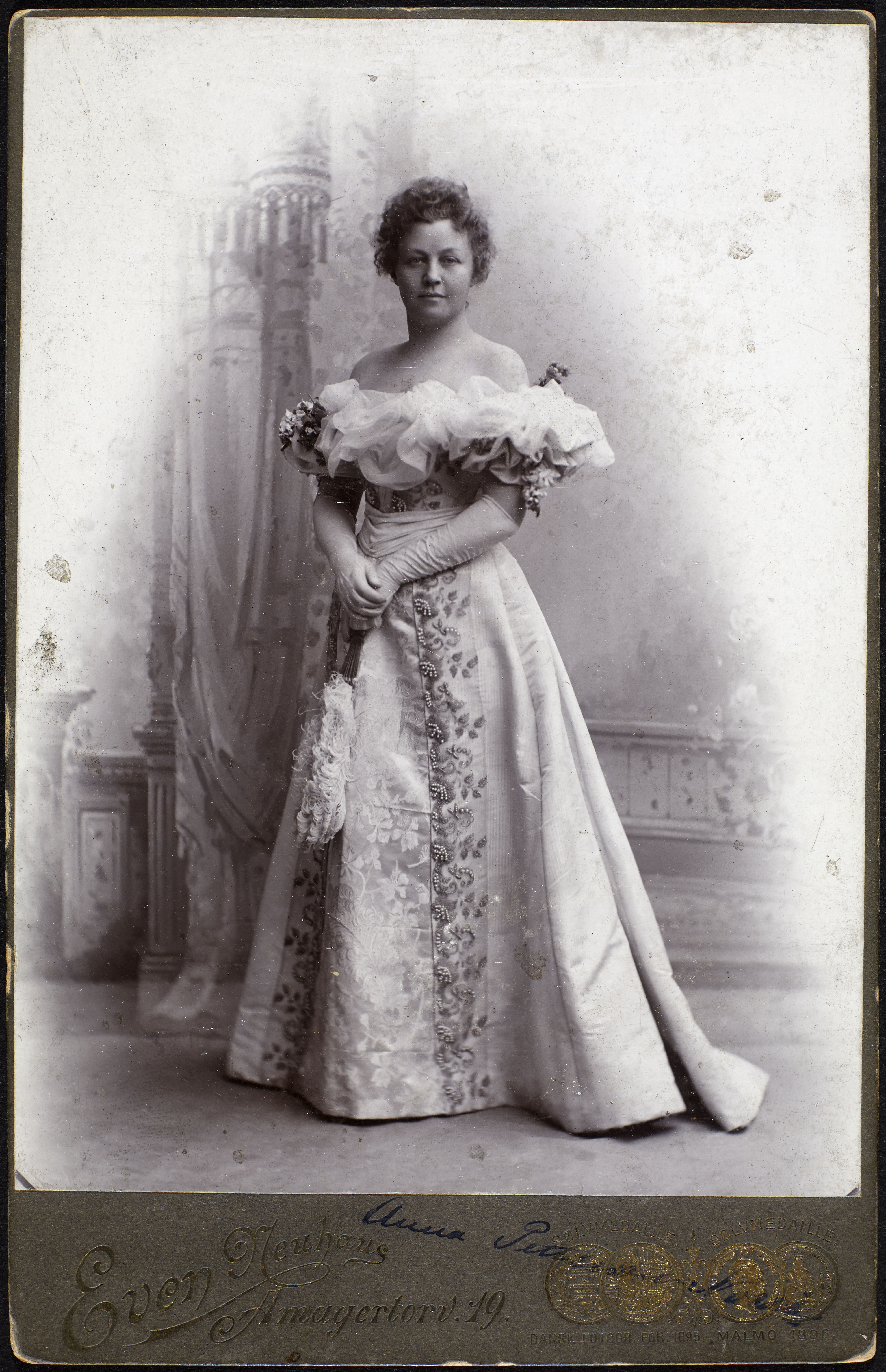 Anna Pettersson-Norrie (1860-1957) Swedish-Danish singer Photo dated 1890 1923_499